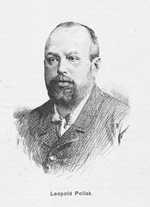 Portrait of Leopold Pollak (1839-1900), Czech farmer and politician.